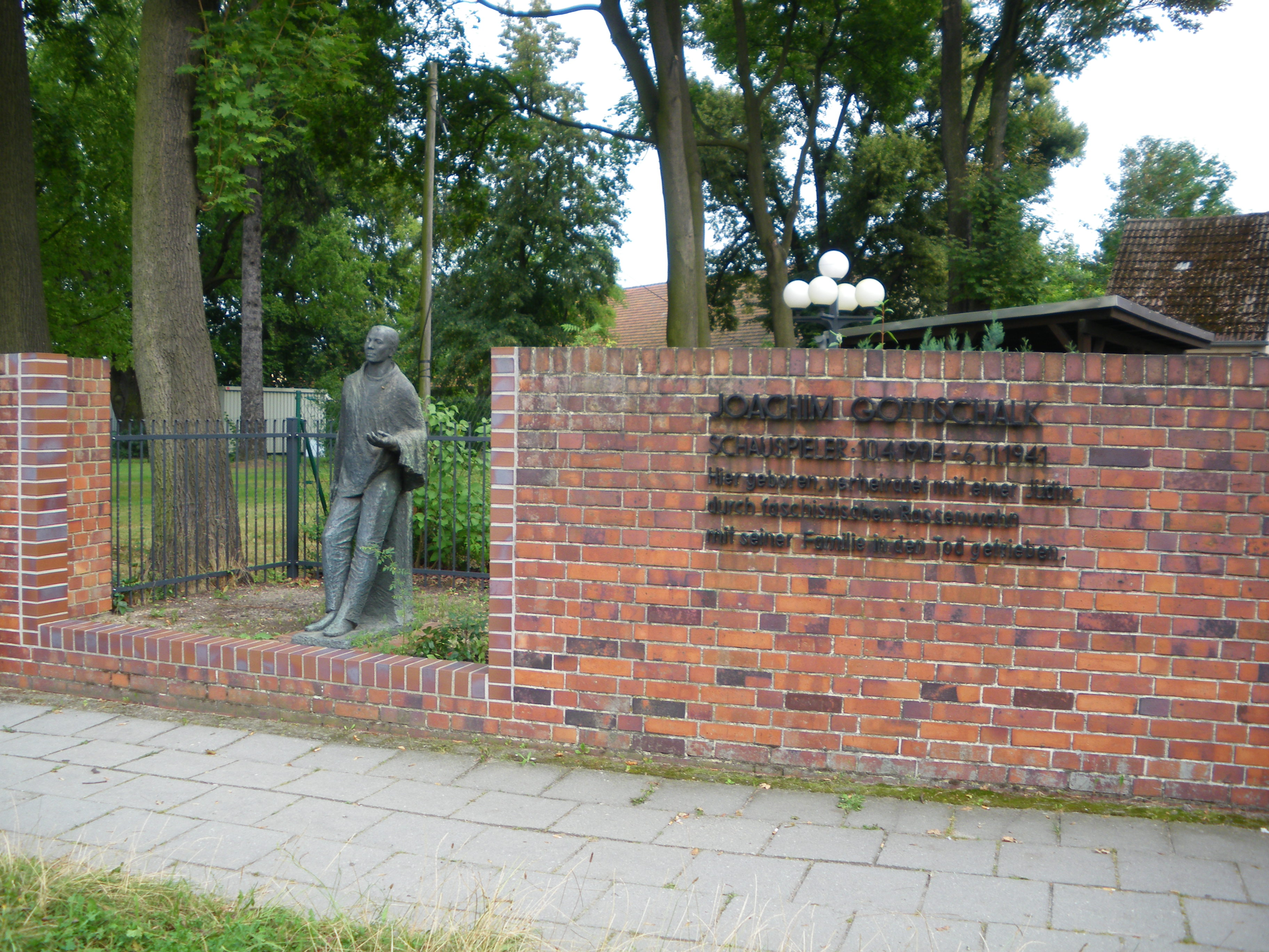 memorial place for Joachim Gottschalk: place of birth, board and monument, Joachim-Gottschalk-Strasse 35 in Calau, Brandenburg, Germany